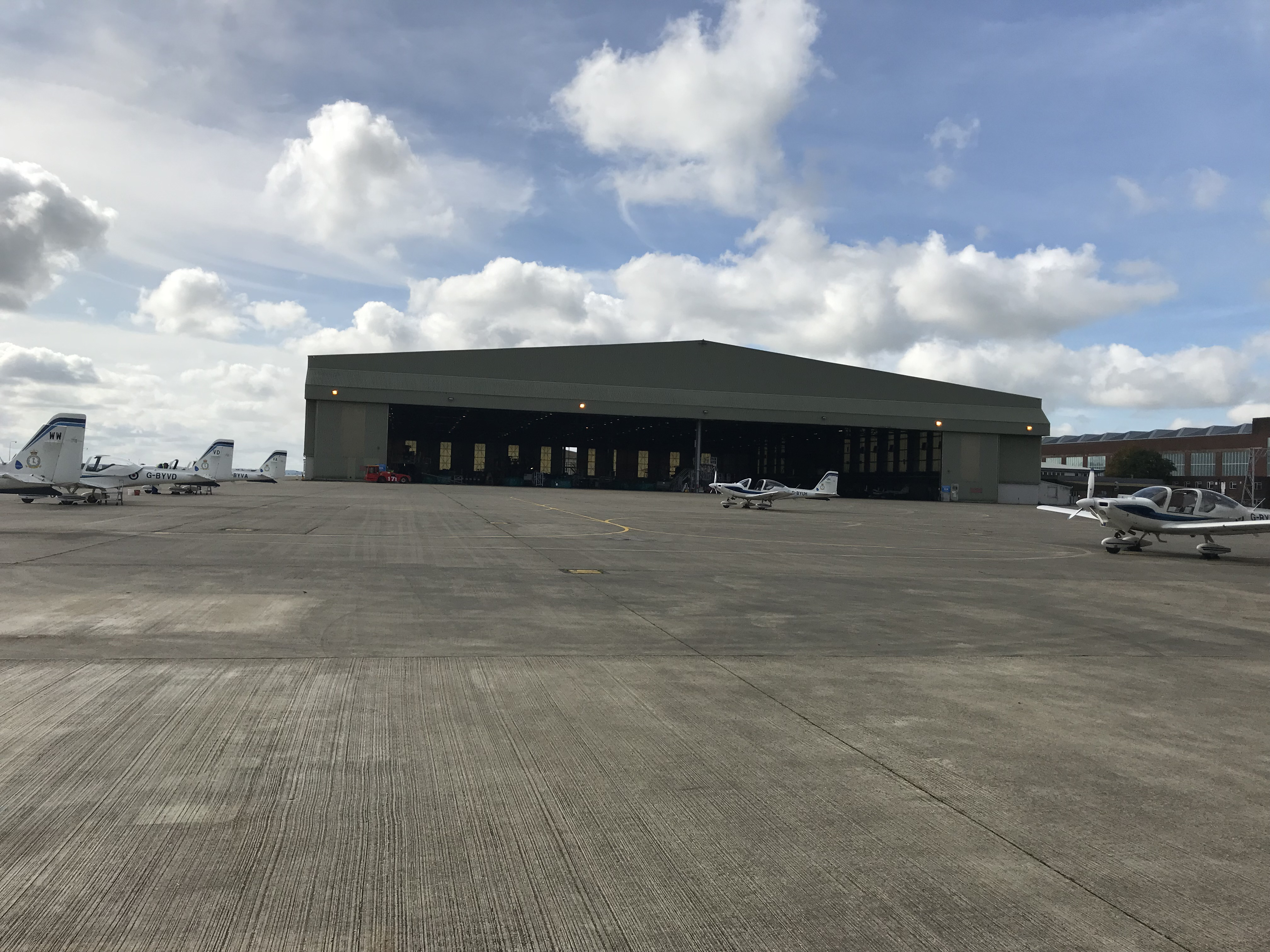 An outside view of a Hangar inside a military Air Base near Stonehenge